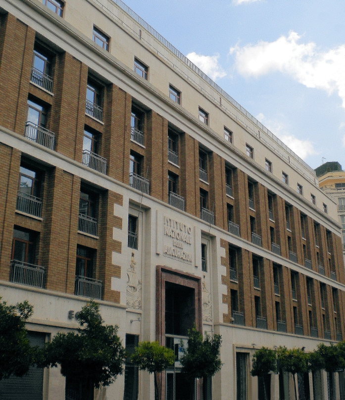 Headquarters INA Assitalia Rome